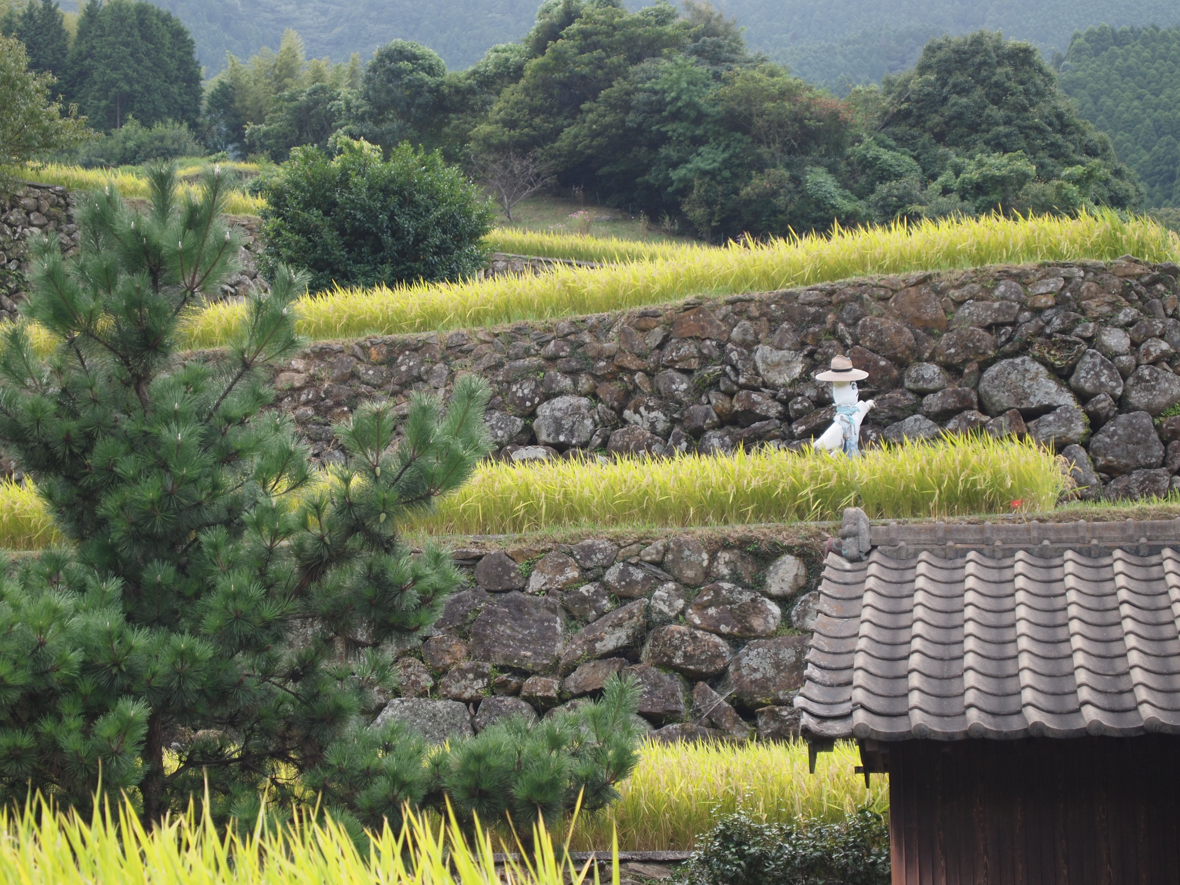 Rice terrace of Warabino(in Ouchi town, Karatsu city, Saga pref.).